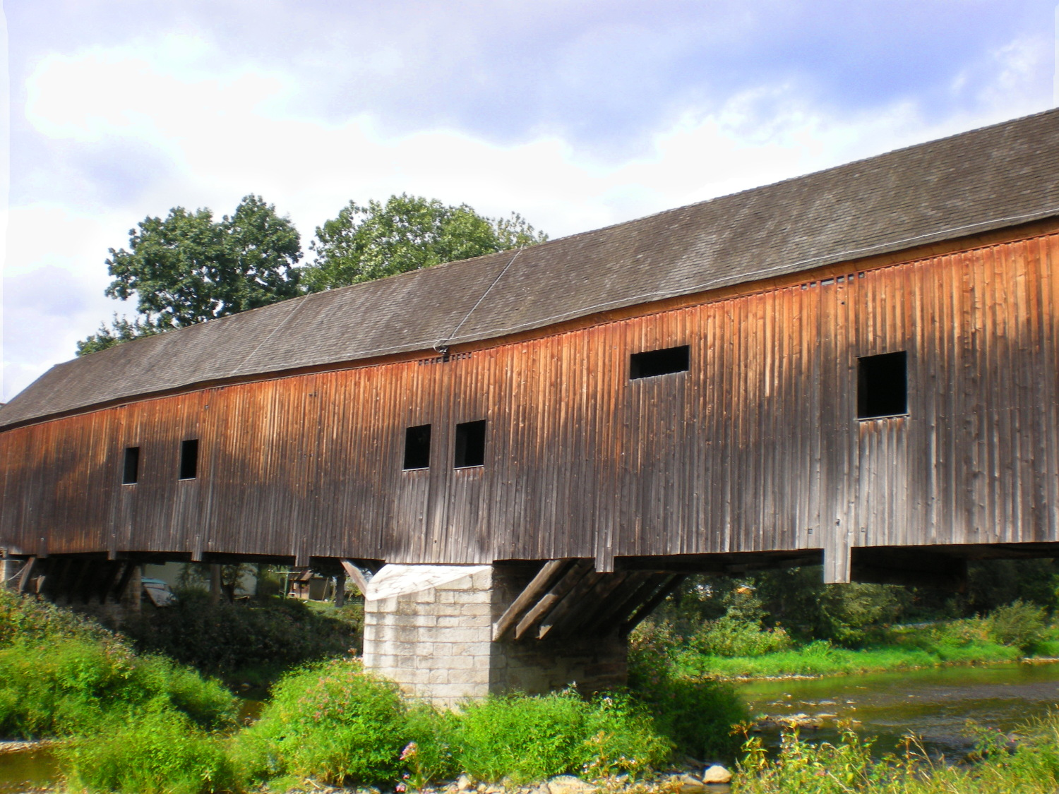 Covered Bridge at Wuenschendorf / Thuringia